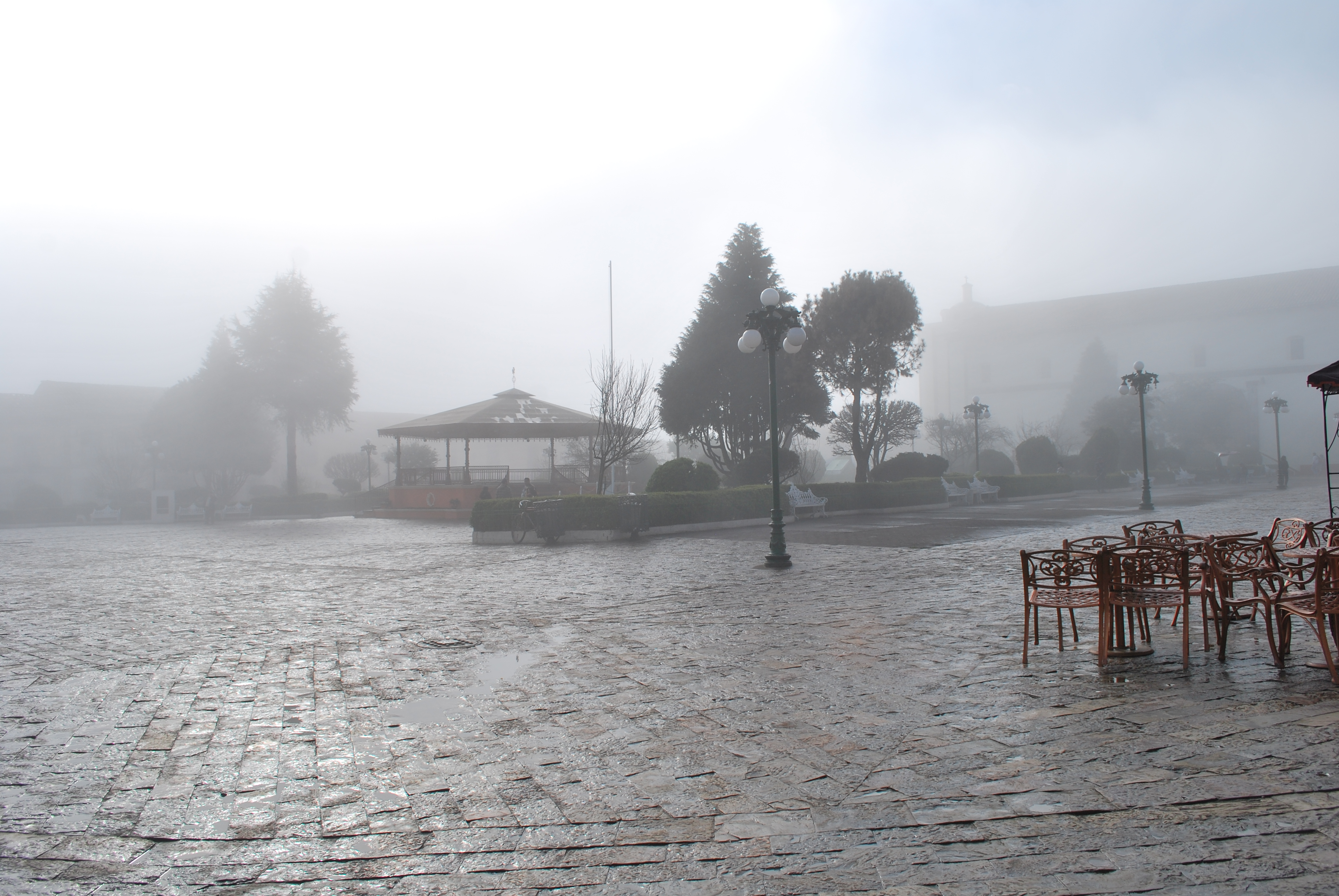 Main square with early morning fog in Zacatlan, Puebla, Mexico